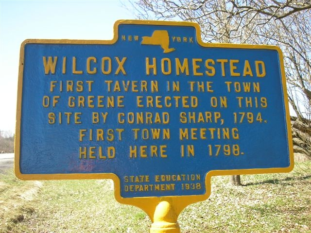 Historic marker of Wilcox Homestead, Greene, NY. First tavern in town erected 1794 by Conrad Sharp. First Town of Greene meeting held here in 1798.